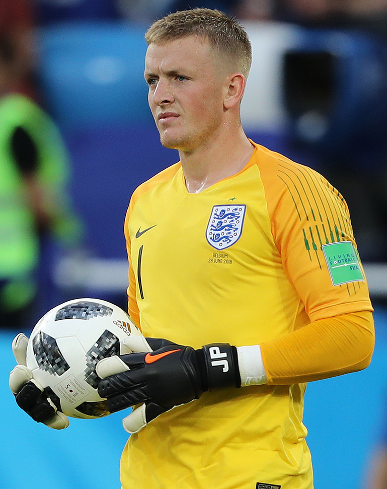 English footballer Jordan Pickford on 28 June 2018, during the 2018 FIFA World Cup group stage match between England and Belgium.